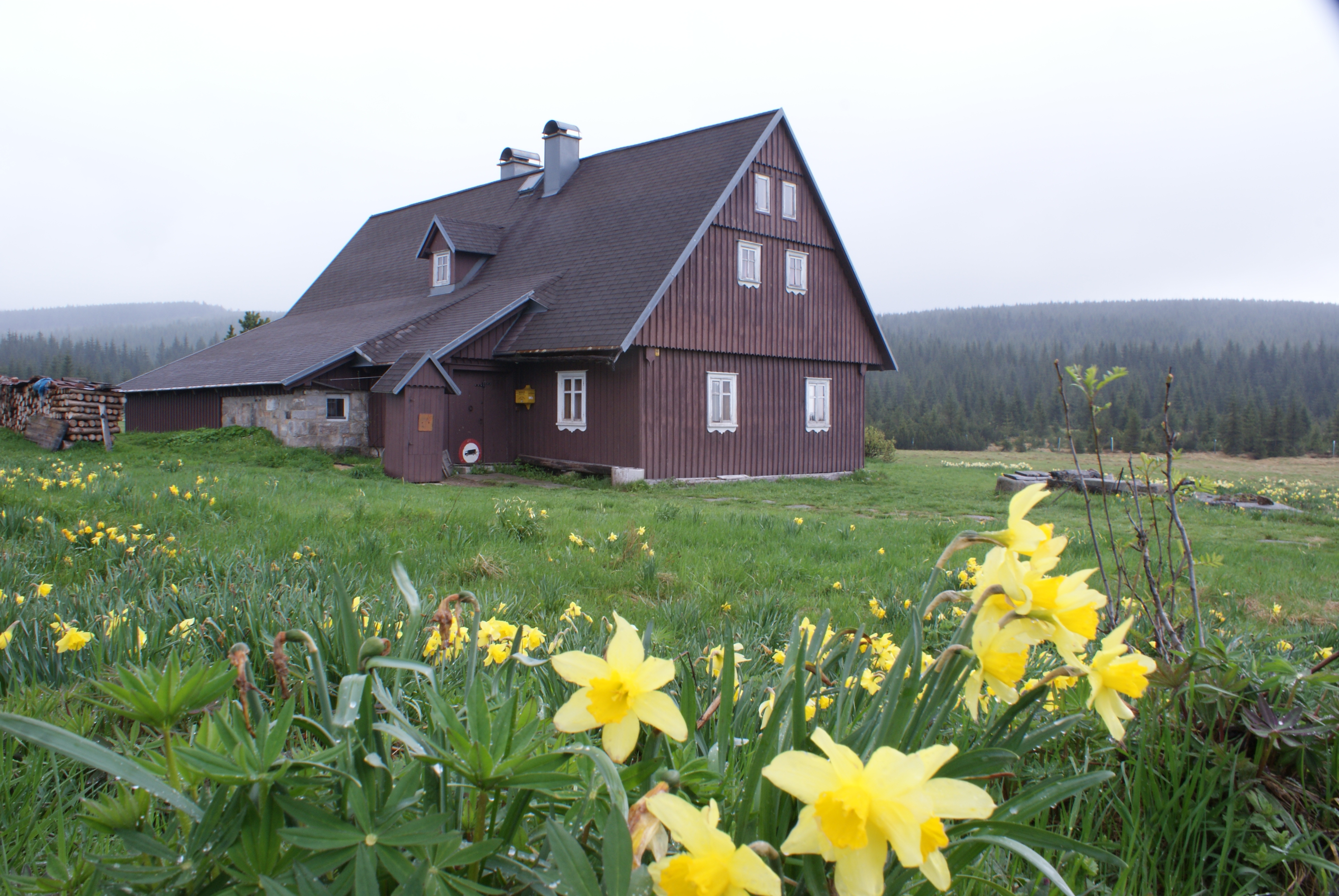 Misthaus, Jizerka, Czech Republic Česky: Hnojový dům, Jizerka, ČR